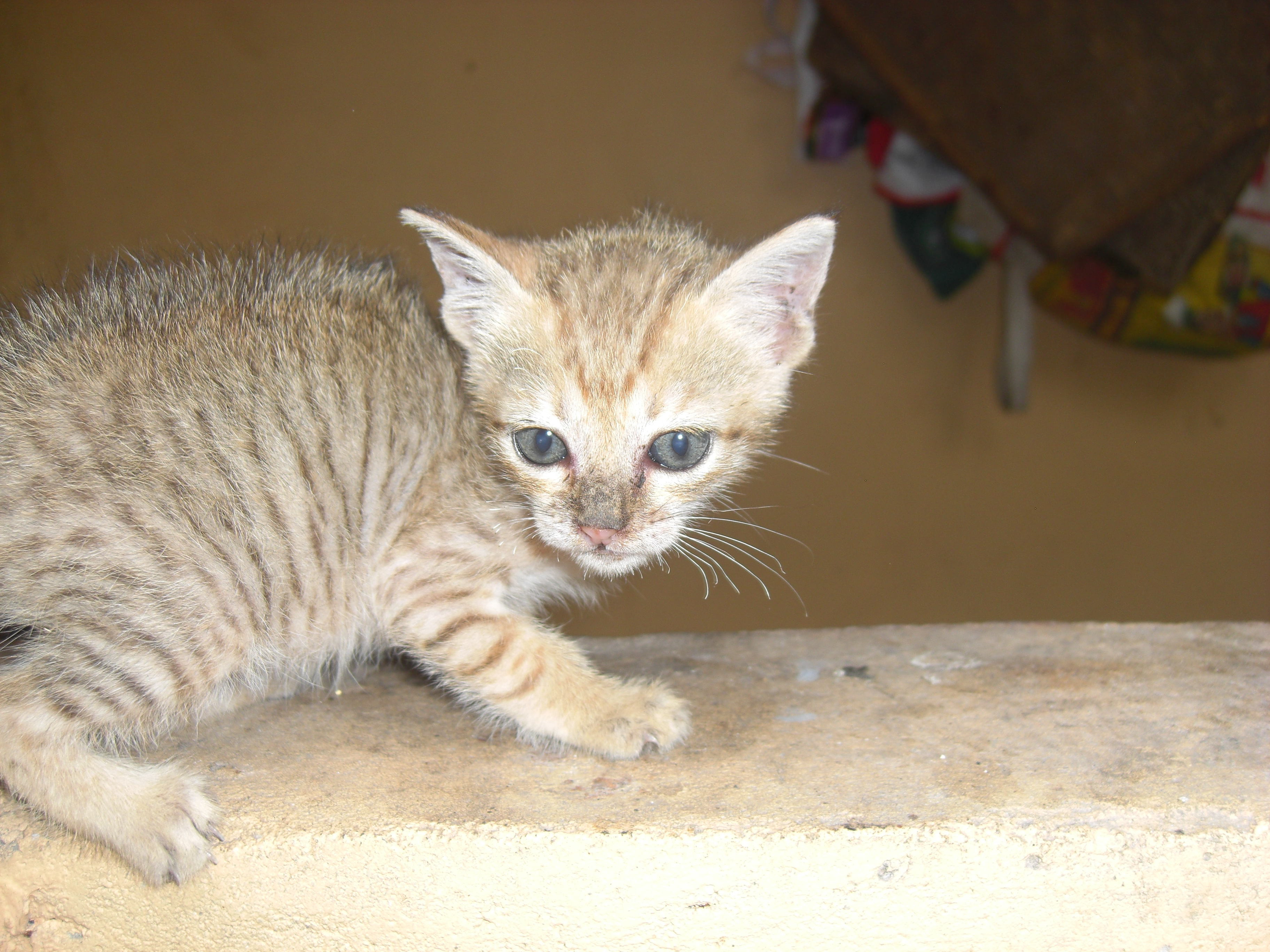 The domestic cat (Latin: Felis catus) or the feral cat (Latin: Felis silvestris catus) is a small, typically furry, carnivorous mammal. They are often called house cats when kept as indoor pets or simply cats when there is no need to distinguish them from other felids and felines. Cats are often valued by humans for companionship and for their ability to hunt vermin. There are more than 70 cat breeds; different associations proclaim different numbers according to their standards. Cats are similar in anatomy to the other felids, with a strong, flexible body, quick reflexes, sharp retractable claws, and teeth adapted to killing small prey. Cat senses fit a crepuscular and predatory ecological niche. Cats can hear sounds too faint or too high in frequency for human ears, such as those made by mice and other small animals. They can see in near darkness. Like most other mammals, cats have poorer color vision and a better sense of smell than humans. Cats, despite being solitary hunters, are a social species and cat communication includes the use of a variety of vocalizations (mewing, purring, trilling, hissing, growling, and grunting), as well as cat pheromones and types of cat-specific body language.